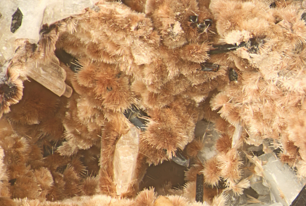 Raite, Sérandite, Aegirine (picture width: 7.0 x 4.6 mm) Locality: Poudrette quarry (Demix quarry; Uni-Mix quarry; Desourdy quarry), Mont Saint-Hilaire, Rouville RCM, Montérégie, Québec, Canada Reddish brown raite with a few pale pink sérandite prisms (left corner, bottom center). The black prisms are aegirine. From a very complex assemblage with lovozerite group, epistolite, manganoneptunite, steenstrupine-(Ce), "eudialyte" and possibly terskite and vuonnemite.